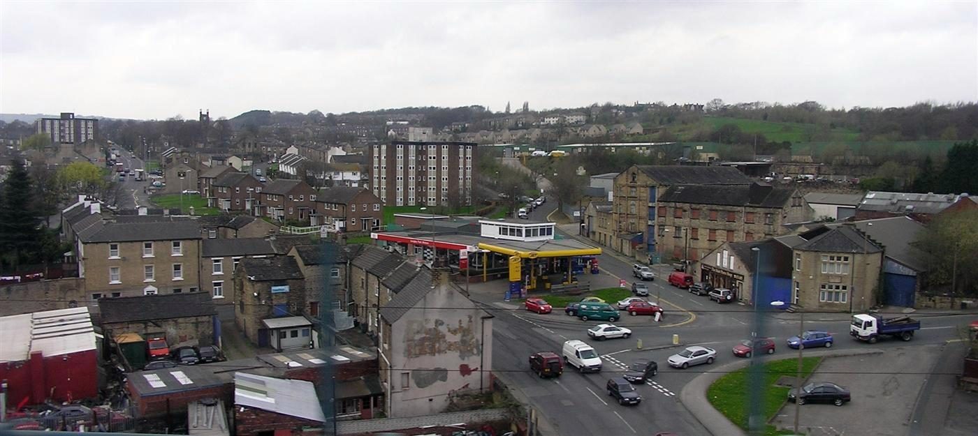 View of Paddock, Huddersfield. Taken from Train whilst passing over viaduct